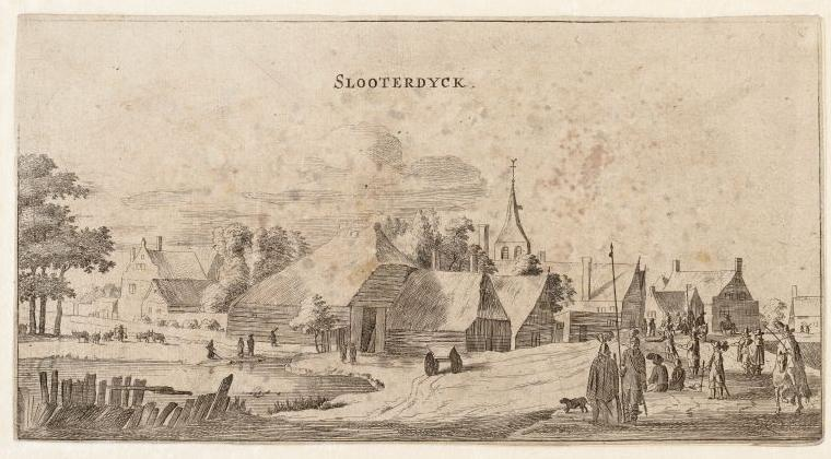 Sloterdijk" in North Holland